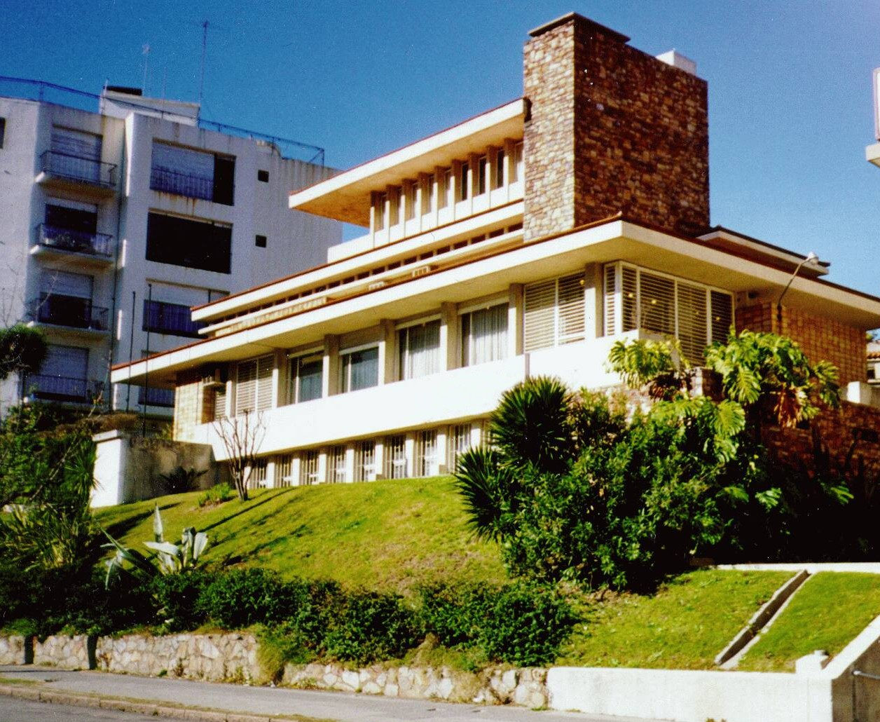 Casa Terra, Proyecto del Arquitecto Ildefonso Aroztegui